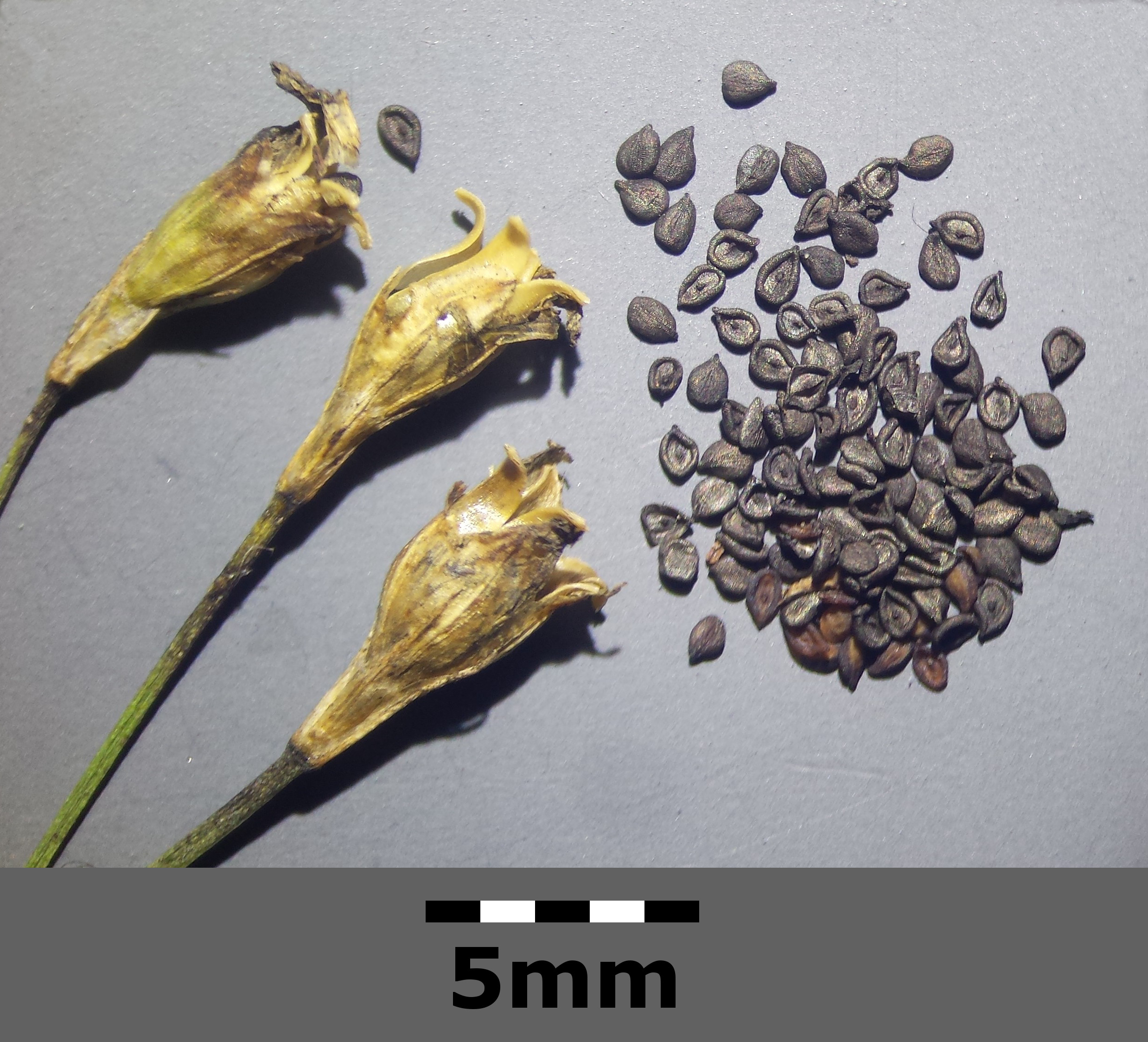 Capsules with seeds Taxon: Petrorhagia saxifraga (sensu Fischer et al. EfÖLS 2008 ISBN 978-3-85474-187-9) Location: Kleiner Wagram near Gerasdorf, district Wien-Umgebung, Lower Austria - ca. 170 m a.s.l. Habitat: semi dry grassland